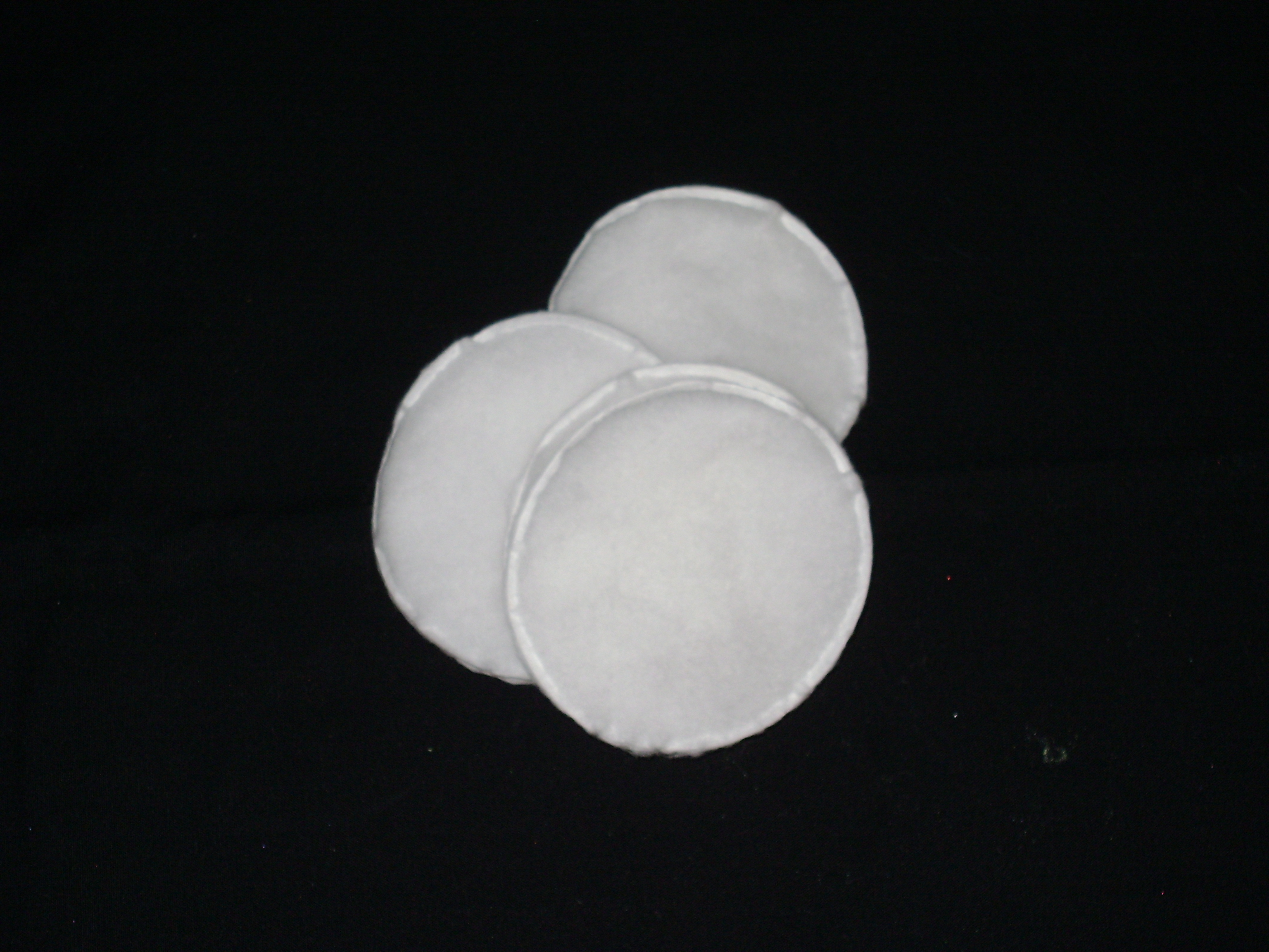 Cotton pads used for cosmetic purposes such as makeup removal, toner application and more